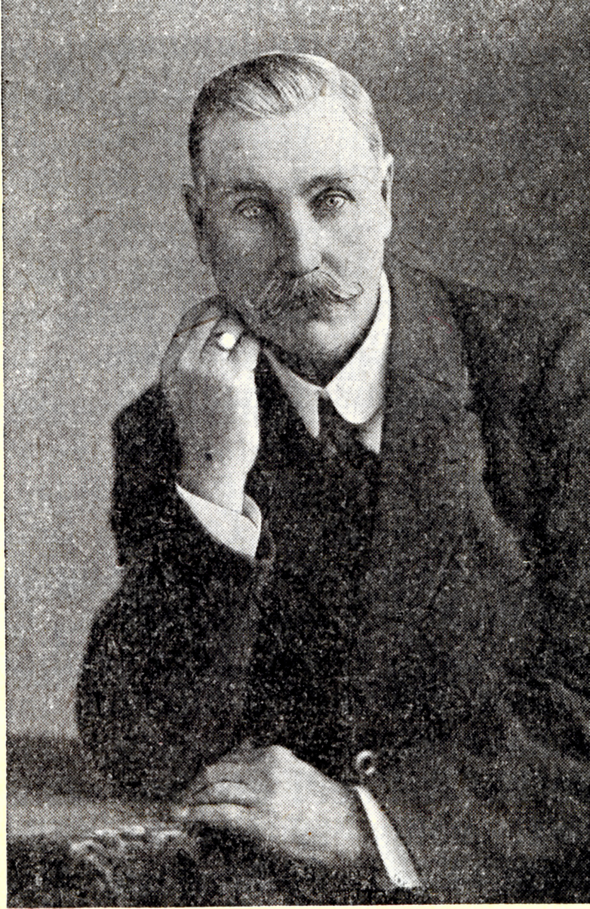 Estonian jornalist, writer and politican Otto Münther.